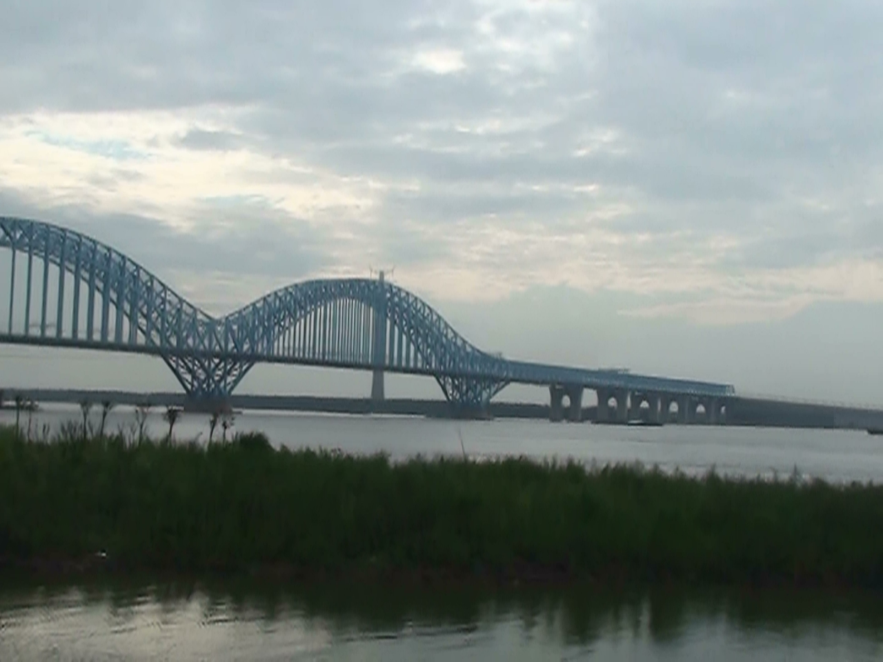 Nanjing Dashengguan Railway Bridge across over Yangtze River, P.R. of China. Large tower of the western Nanjing power line crossing in the background. 中文（中国大陆）: 南京大胜关长江大桥。